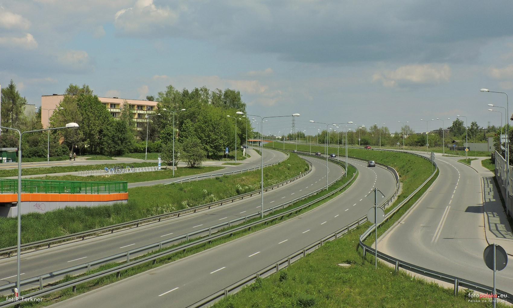 Kuronia Street in Radom, Poland